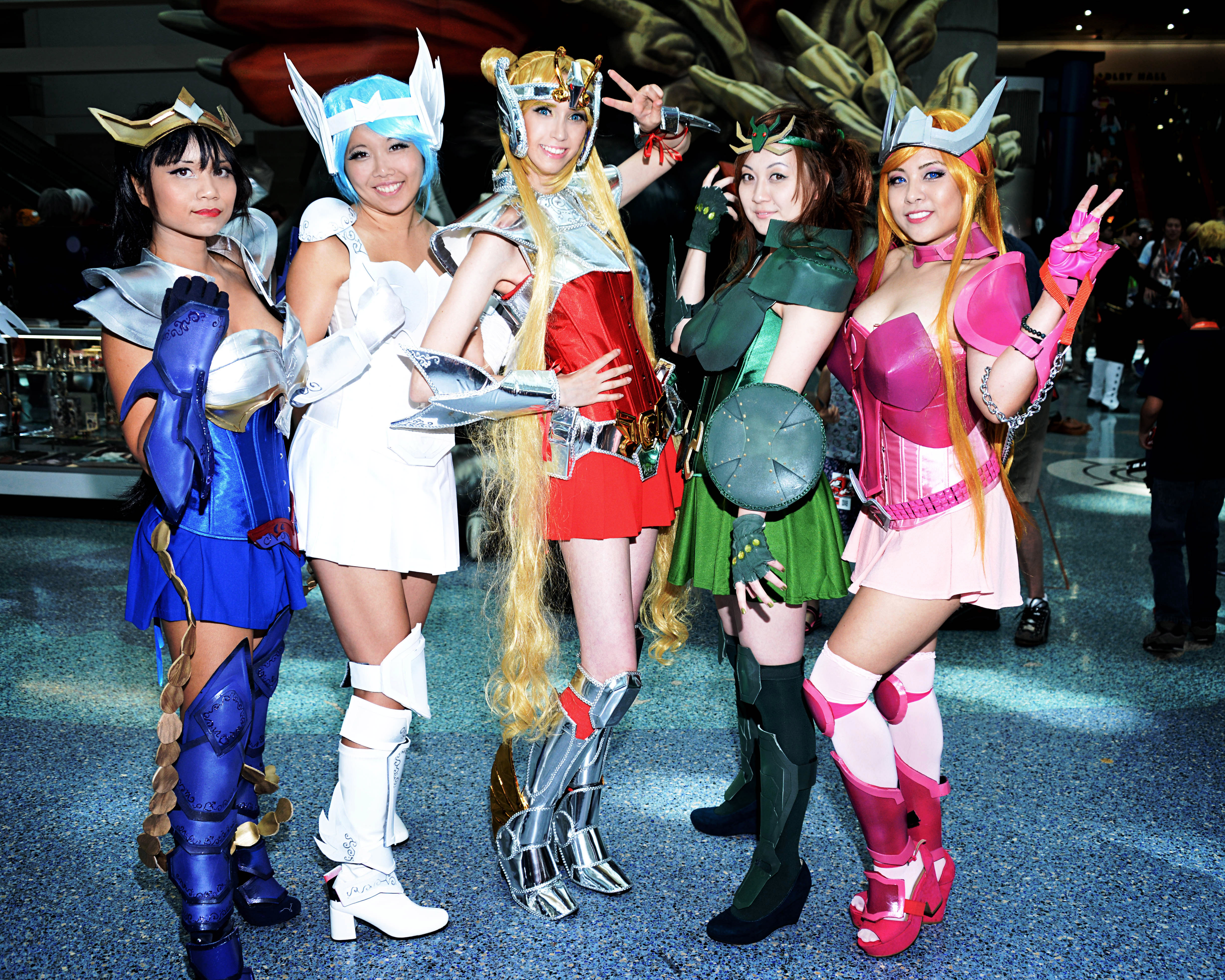 Saint Seiya style Inner Senshi from Sailor Moon cosplayers at Anime Expo 2016.